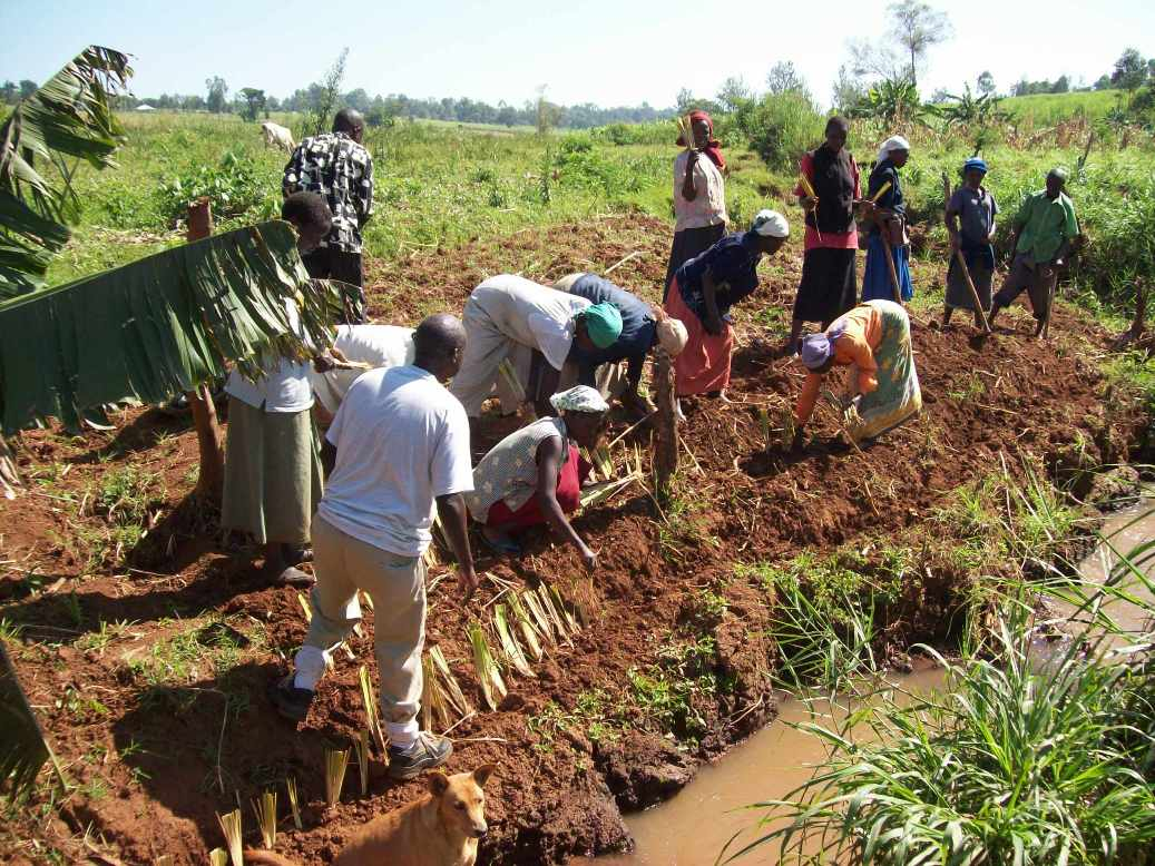 MEMBERS OF NYAWADHOGWE COMMUNITY GROUP PLANTING VETIVER GRASS IN KENYA